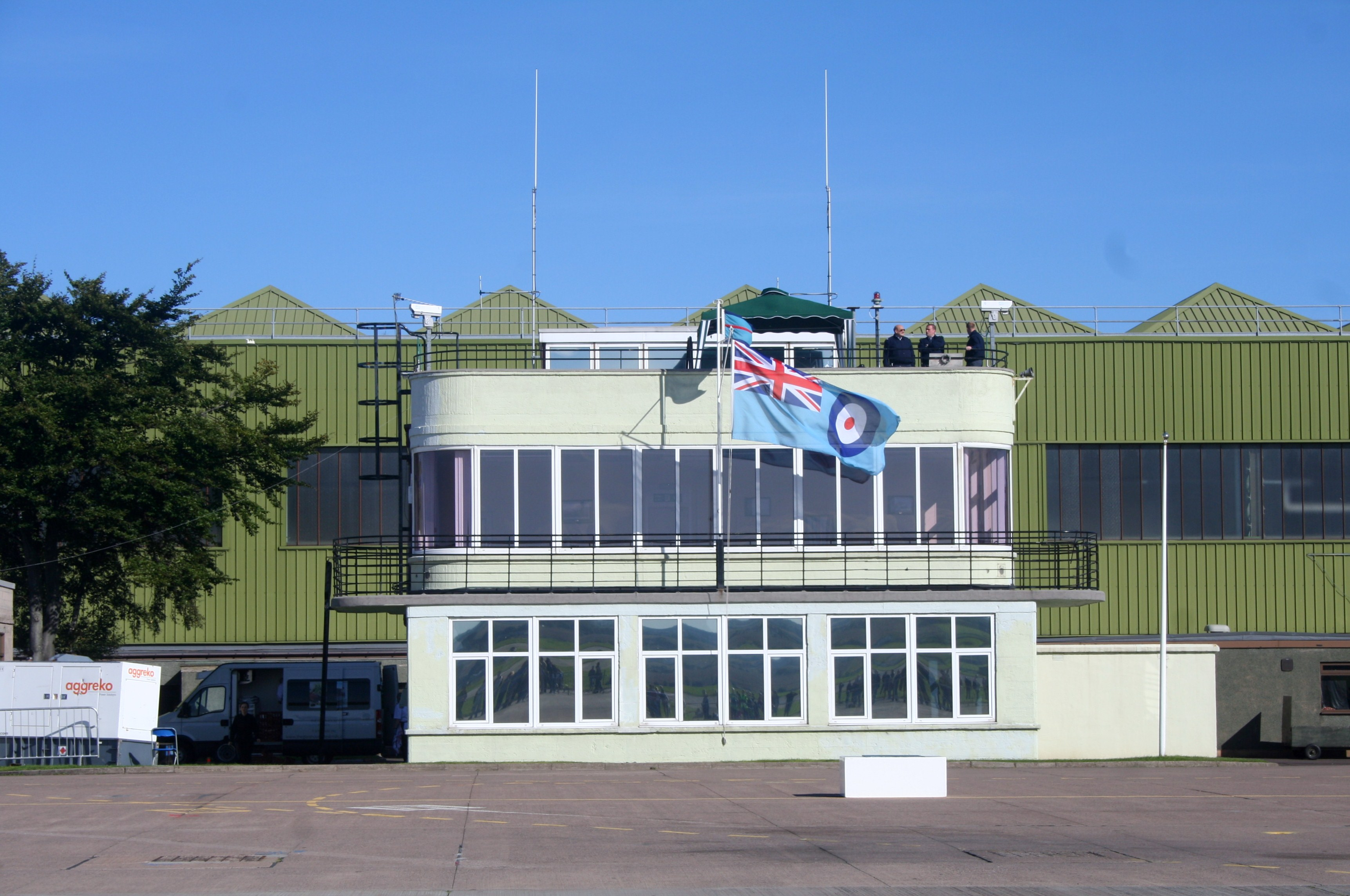 Leuchars Control The old control tower at Leuchars Airfield.